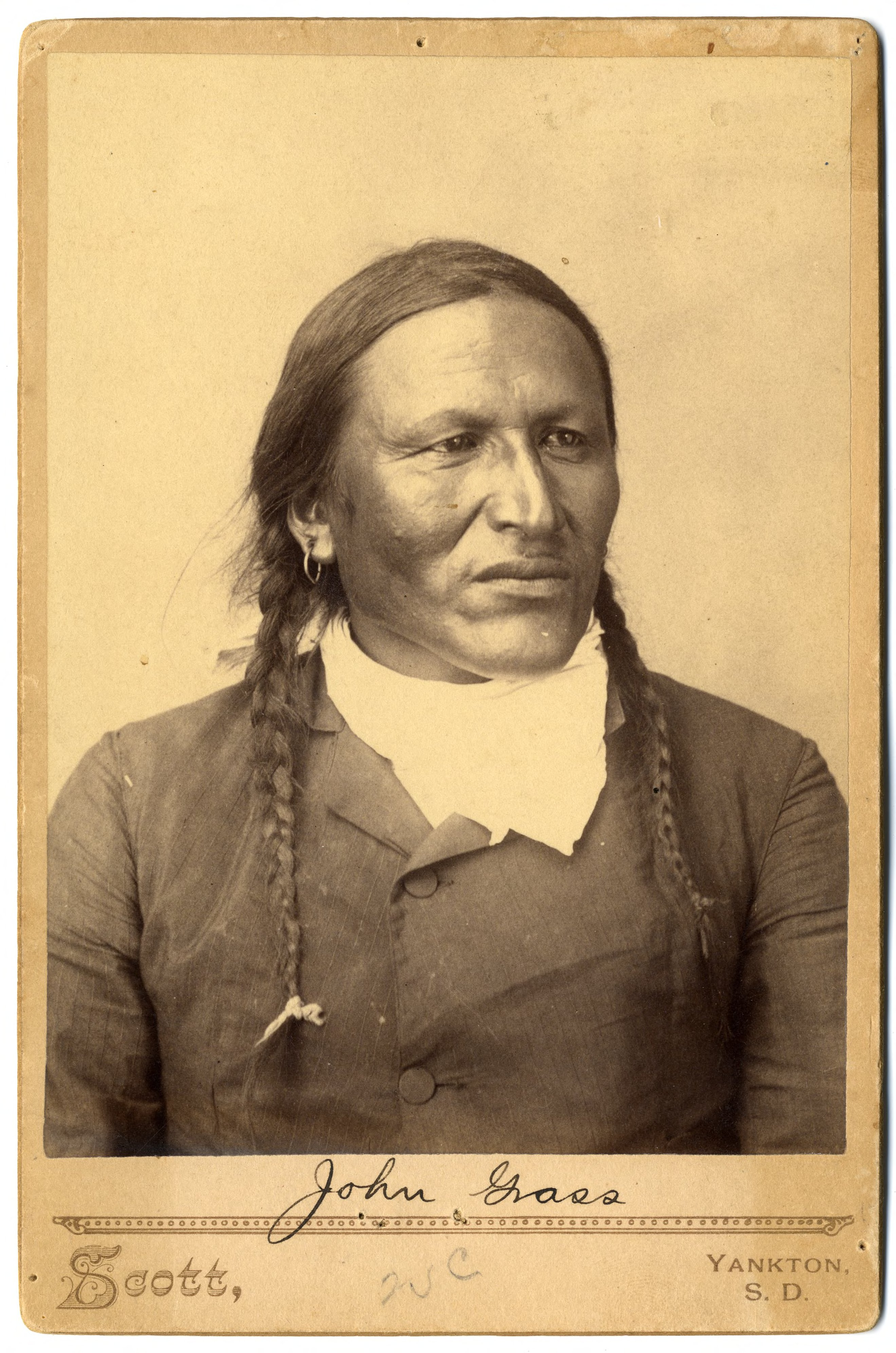 Albumen print cabinet card, head and shoulders portrait of Sihasapa Lakota chief John Grass. Written on verso: "1881-1890. Helped U.S. agents to advance the Indian to what he is today. Chief all all [sic.] the Sioux. His adopted son - Major Welch - was at the front in France. Grass advised young men to fight in World War. Early name was Jumping Bear, and known as the 'Daniel Webster' of the Sioux. At age 21 he became infatuated with a captive white woman, Miss Fannie Kelly, who was 19. Her captivity was known to Gen. Sully but he was unable to rescue her. She promised to become his wife after he delivered a letter to Fort Sully on Missouri River in S.D. She escaped. Died at Standing Rock Agency, May 14, 1918."